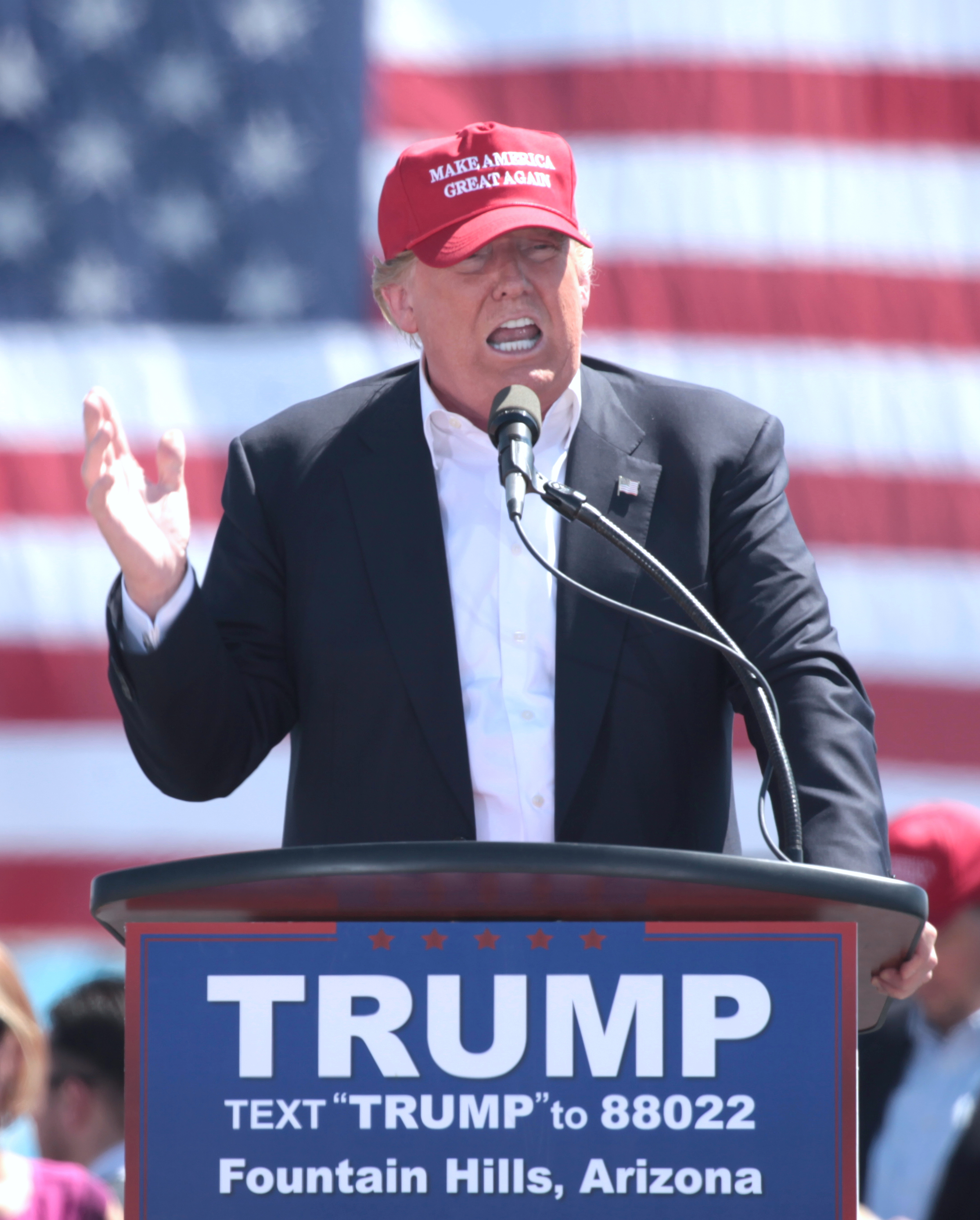 Donald Trump speaking at a rally in Fountain Hills, Arizona.